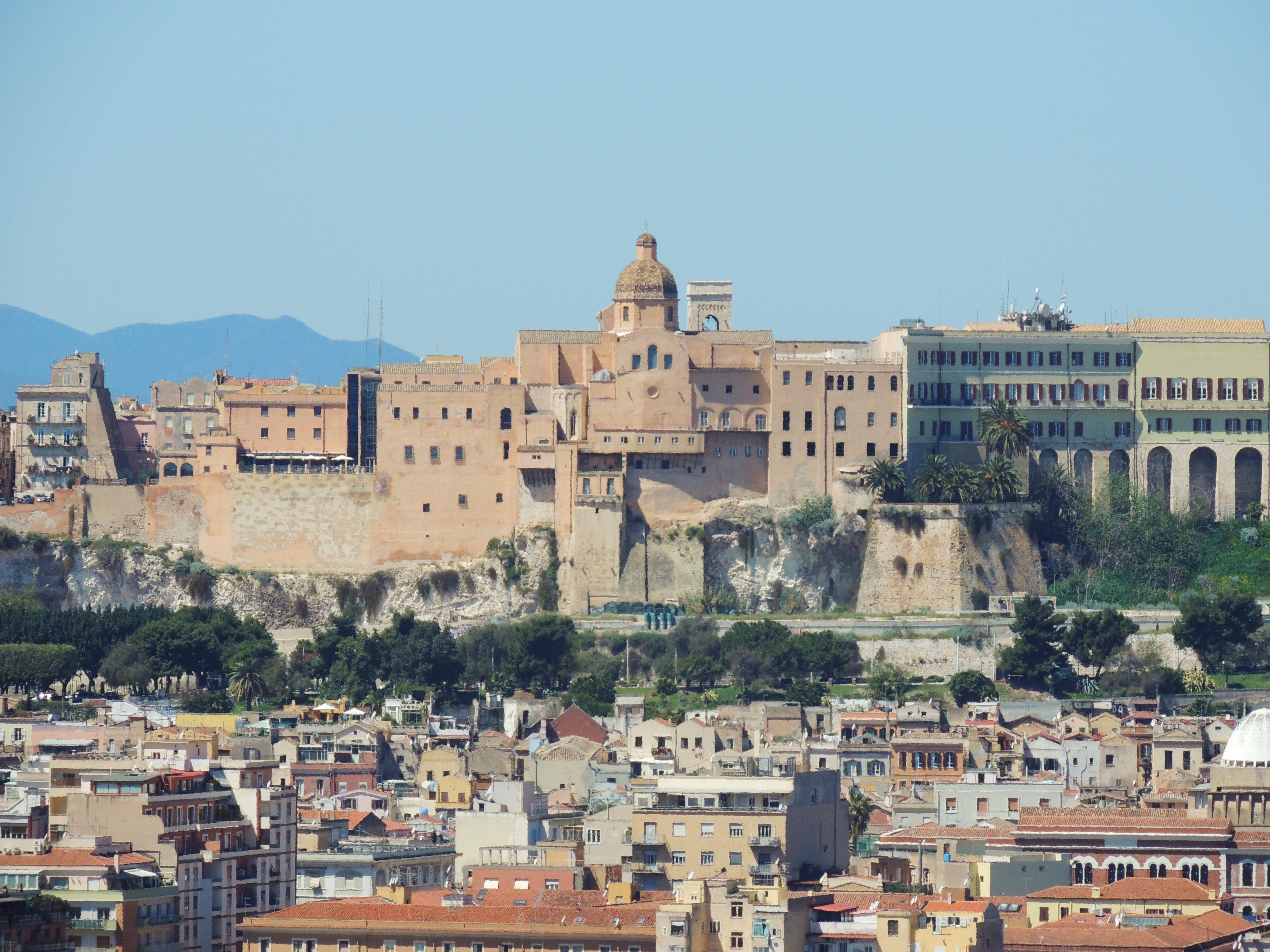 East walls, under the Cathedral and the Royal Palace